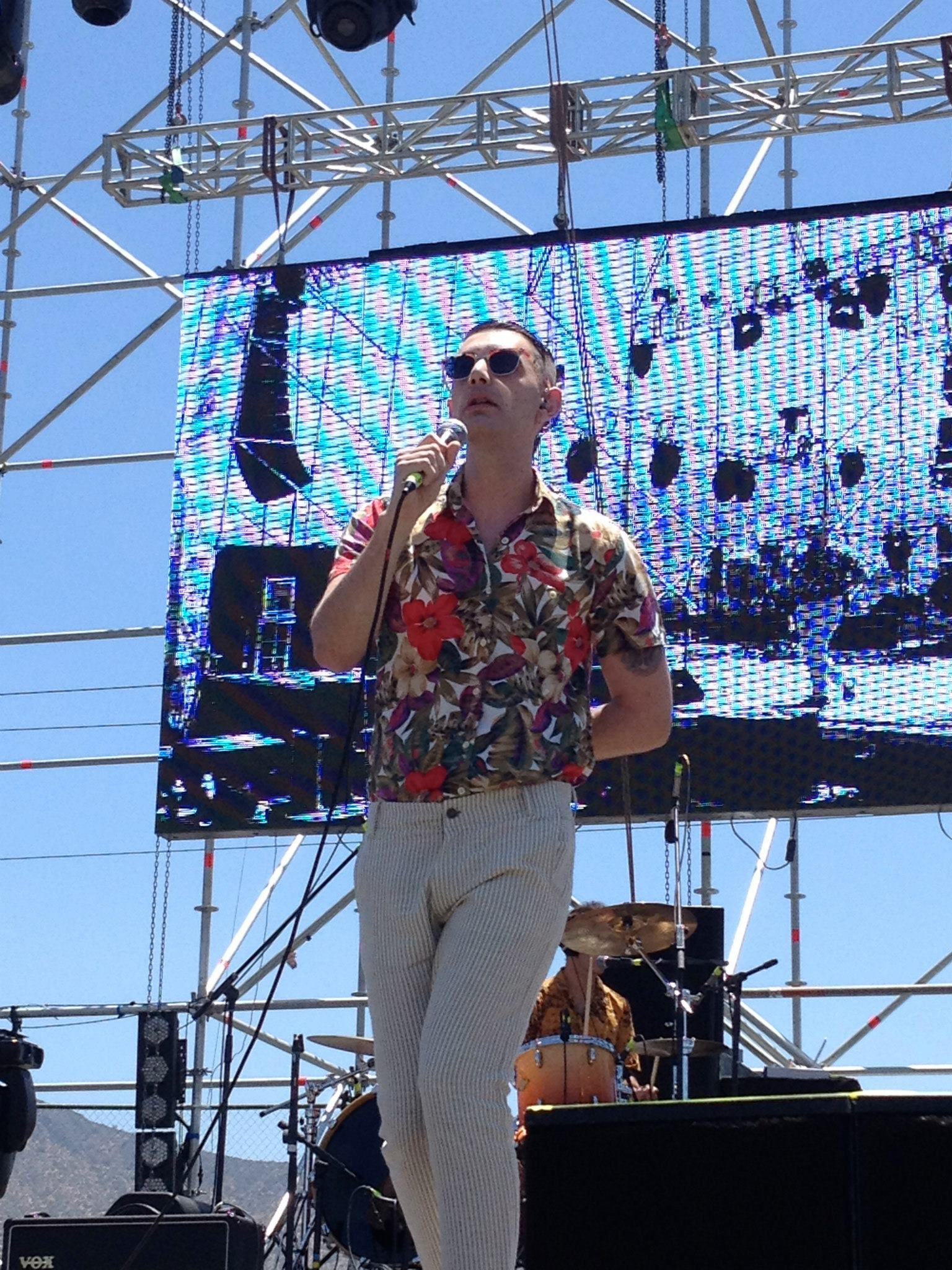 Chilean singer Alex Anwandter performing live at Primavera Fauna 2012